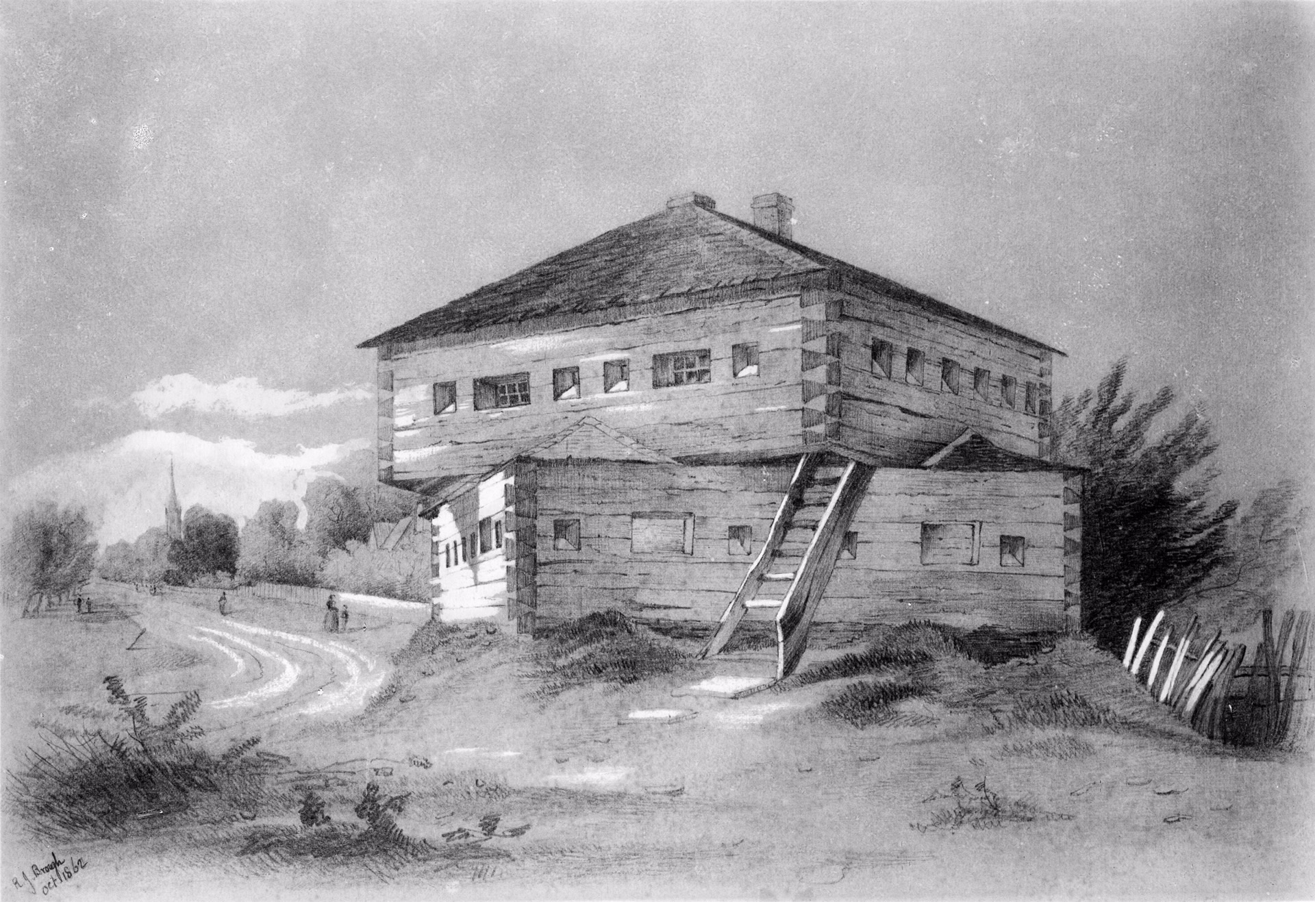 Blockhouse on Sherbourne, above the Rosedale Ravine. Original caption: "Blockhouse, Sherbourne St., e. side, opp. former end of Bloor St. E. Drawing inscribed l.l.: R. J. Brough/ Oct 1862. Photo: E 4-82a. (REPRO of E 4-82a)." This image is available from the Toronto Public Library under the reference number E 4-82aThis tag does not indicate the copyright status of the attached work. A normal copyright tag is still required. See Commons:Licensing. English | français | +/−